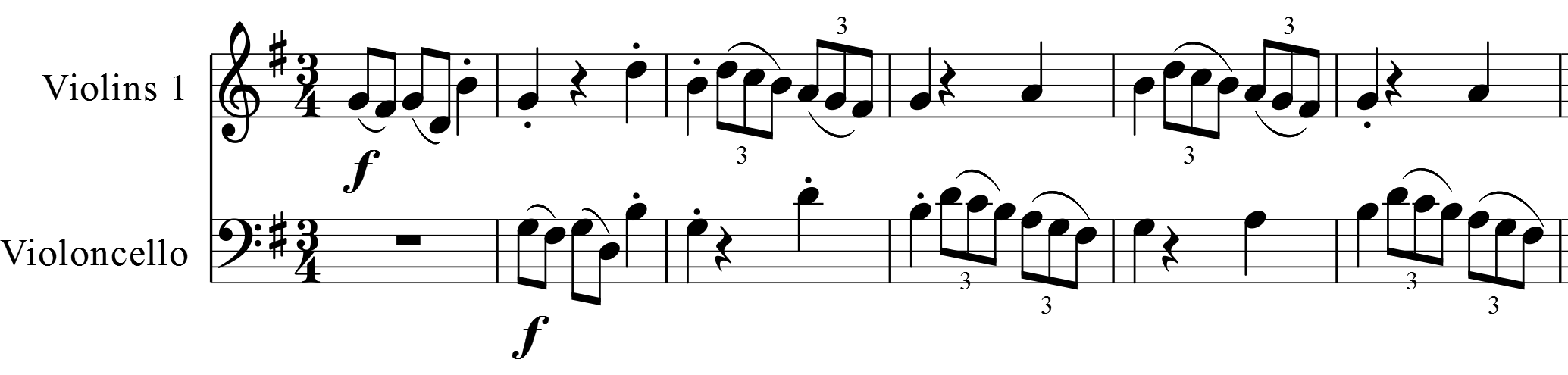 Joseph Haydn, Symphony No. 23, third movement, bar 1-6